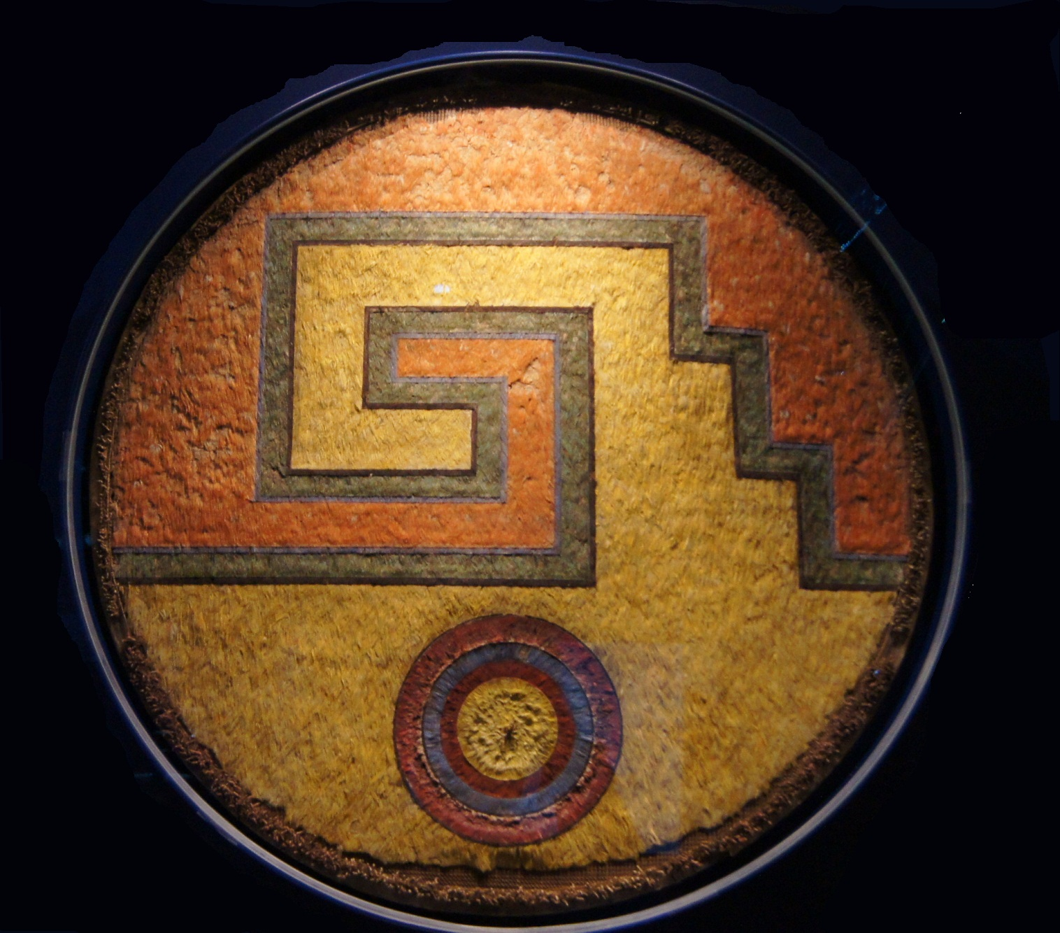 Aztec Feather Shield with Sun, Landesmuseum Württemberg, [KK orange 6]